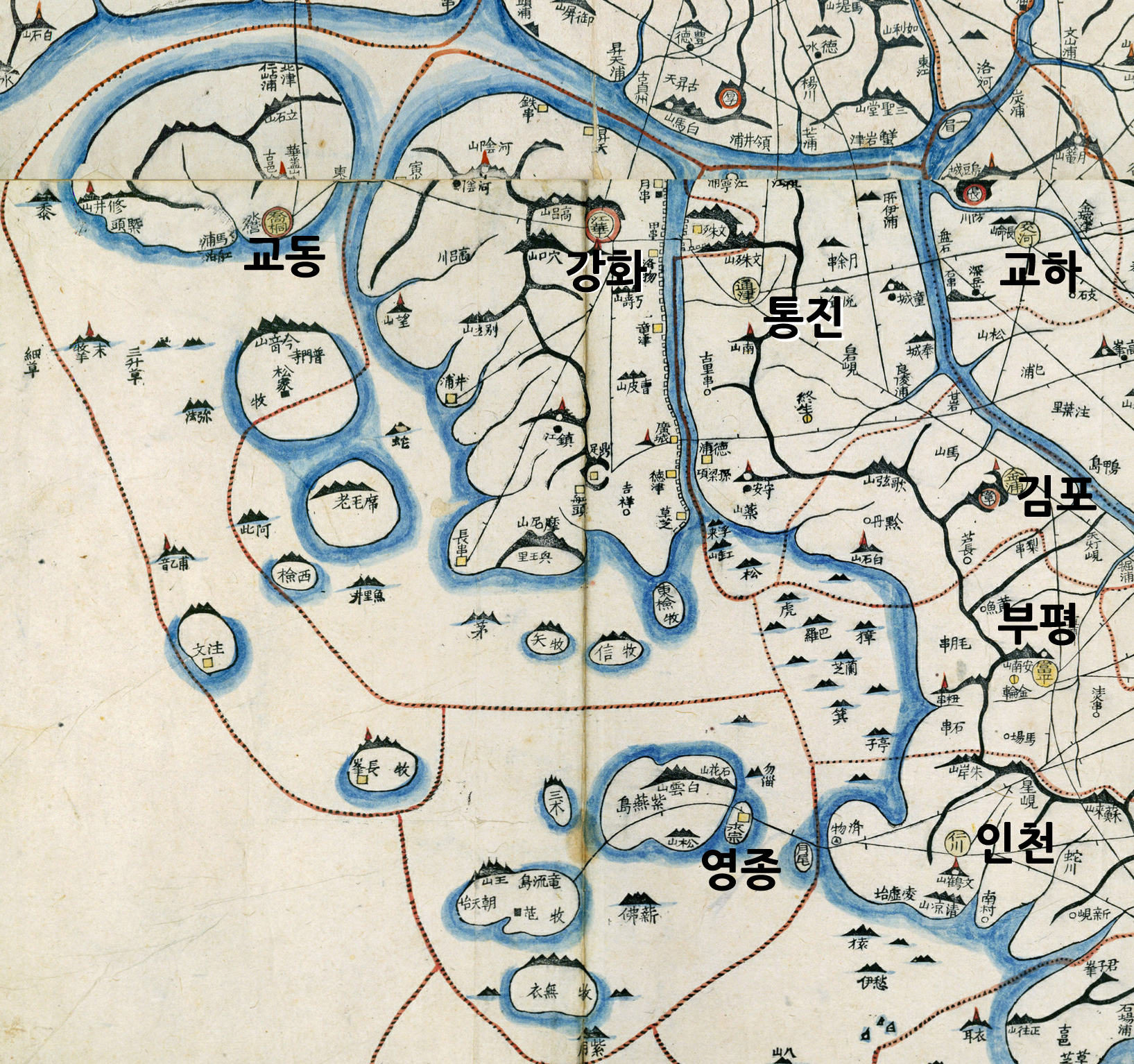 This image is a part of Daedongyeojido to show Incheon